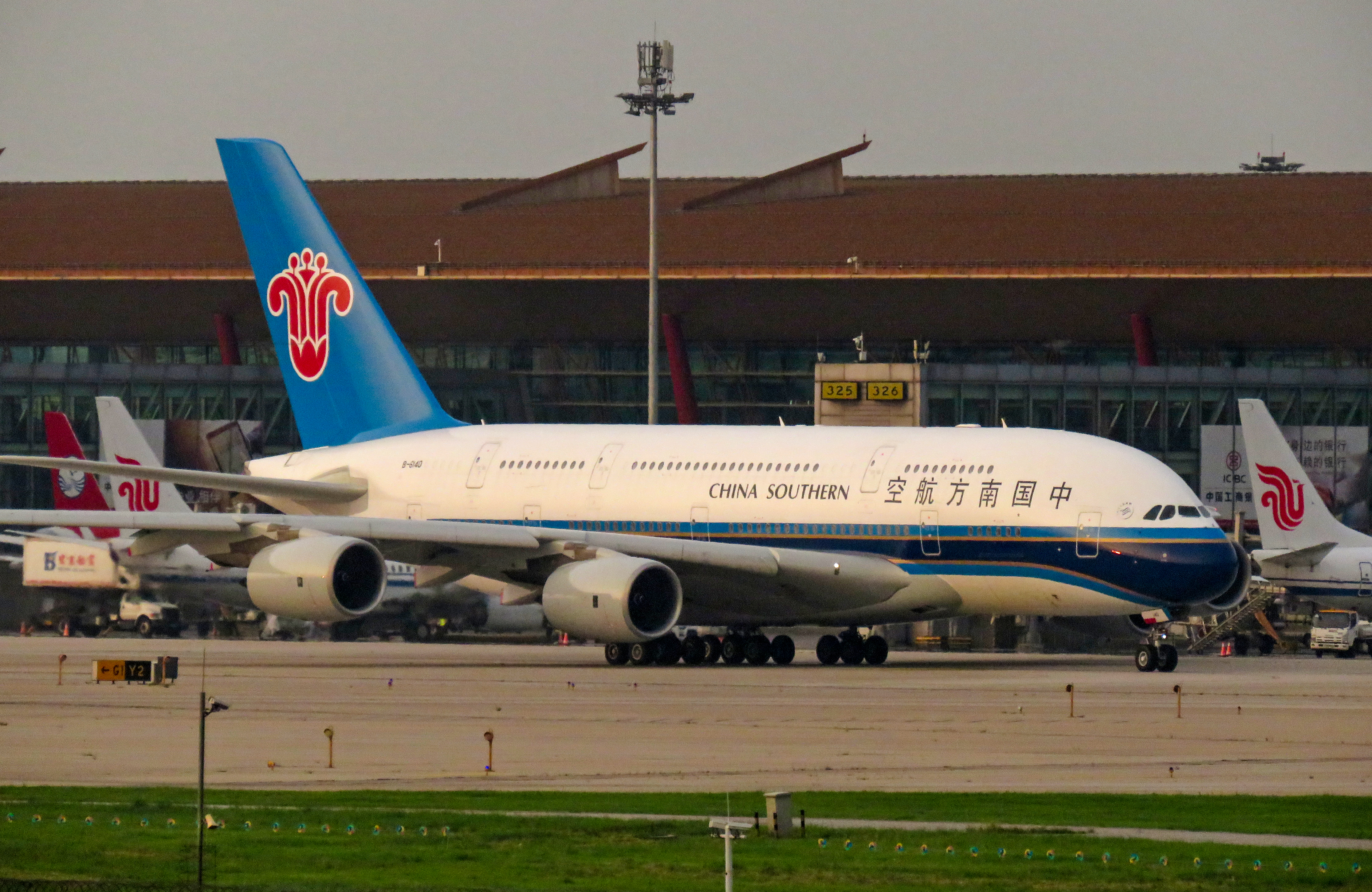 China Southern 3104 to Guangzhou after a delay of more than 3 hours. A CZ A380 at T3? Looked weird.